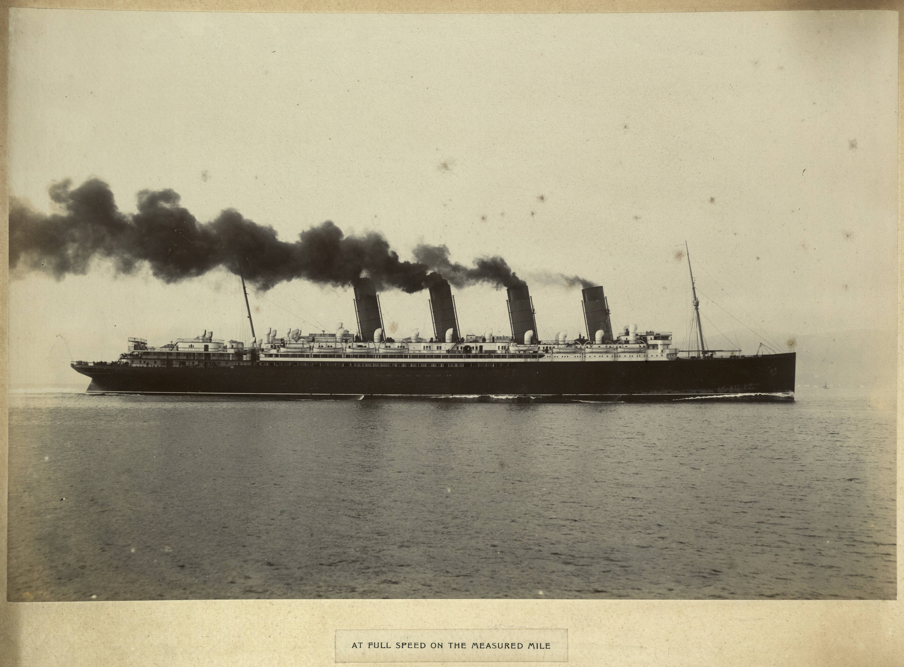 Title: At full speed on the measured mile Creator: Bedford Lemere & Co. [attrib.] Date: ca. 1906-1907 Part Of: R.M.S. Mauretania Description: This is the first photograph in an album containing 30 prints of the Cunard line's Royal Mail Steamship, Mauretania. Physical Description: 1 photographic print: gelatin silver; 24 x 36 cm. on 31 x 42 cm. mount File: ag1982_0116_album_01_sm_opt.jpg Rights: Please cite DeGolyer Library, Southern Methodist University when using this file. A high-resolution version of this file may be obtained for a fee. For details see the web page. For other information, . For more information, View the